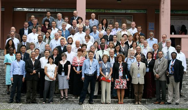 ISEKI Food Partners